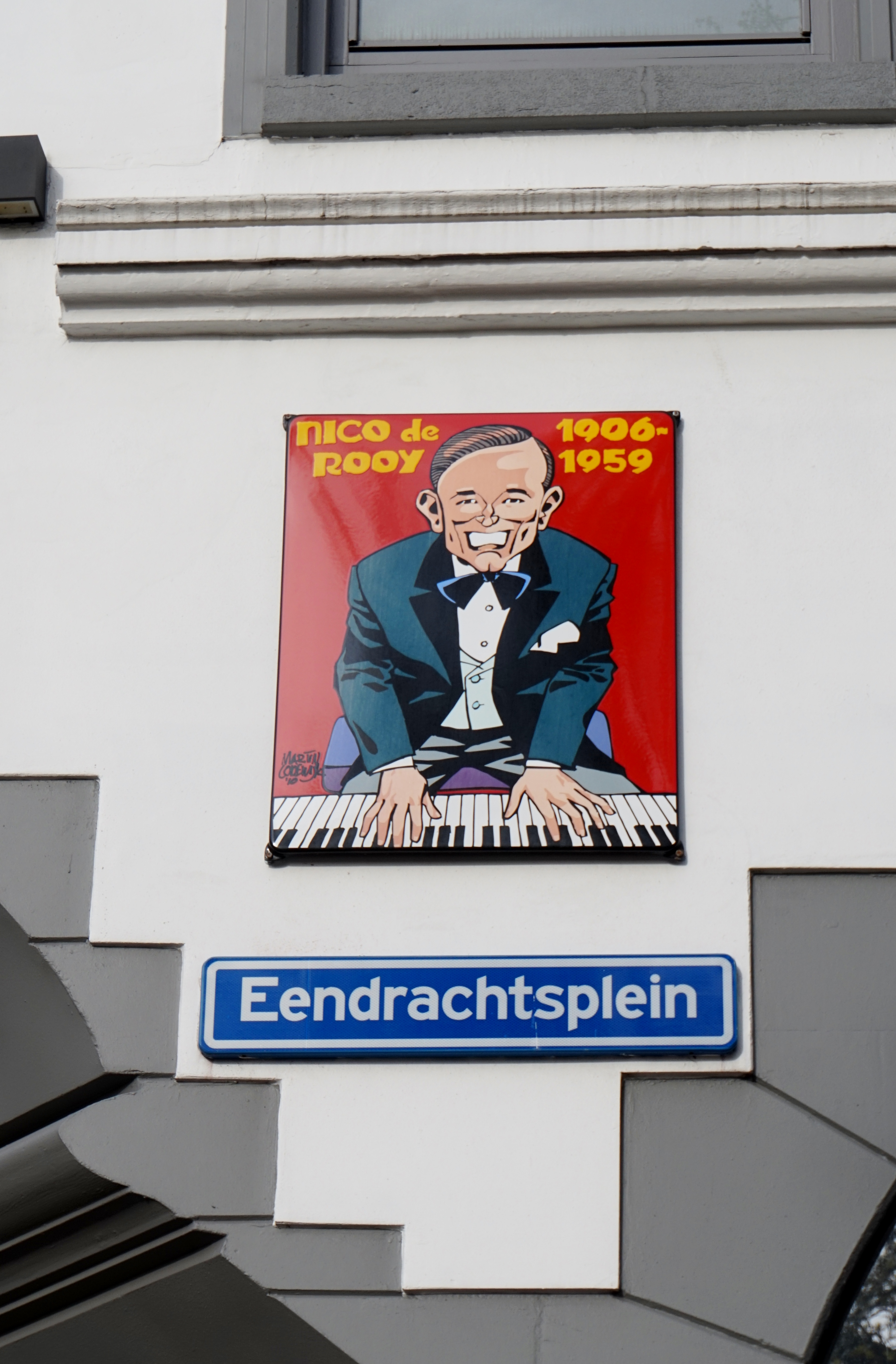 Nico de Rooy by Martin Lodewijk